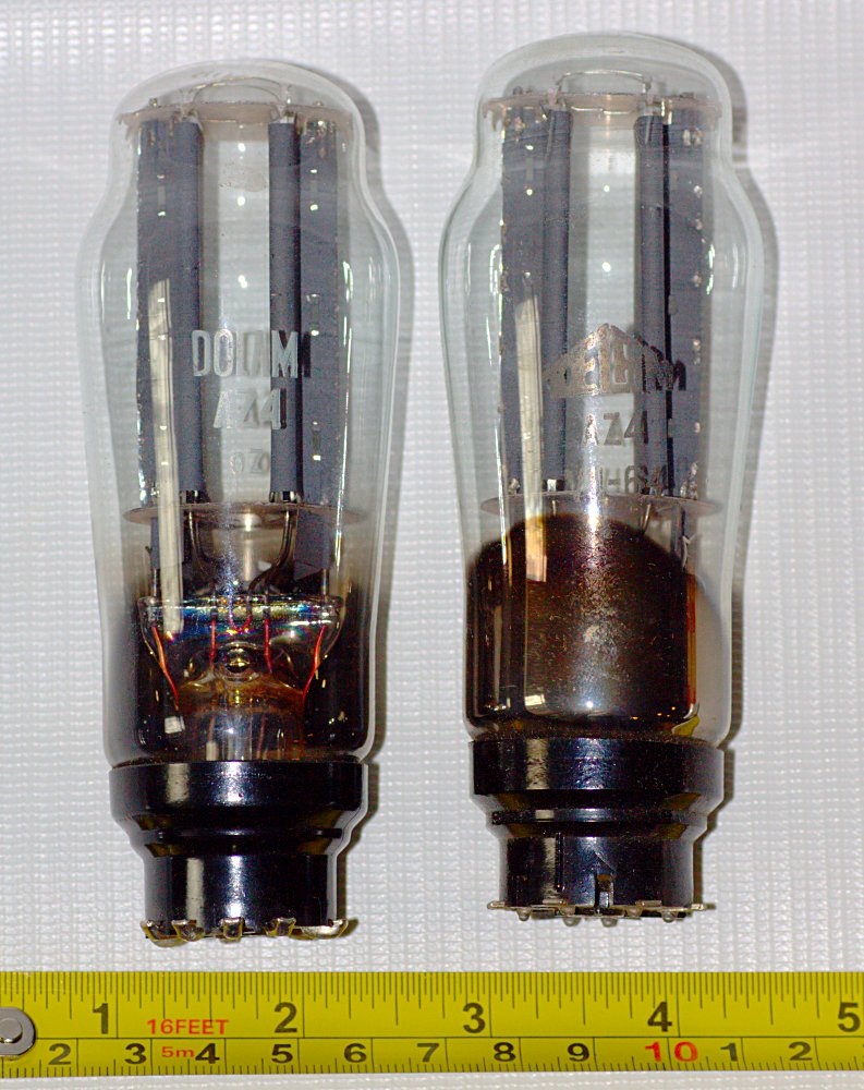 AZ4 double diodes (Polish)